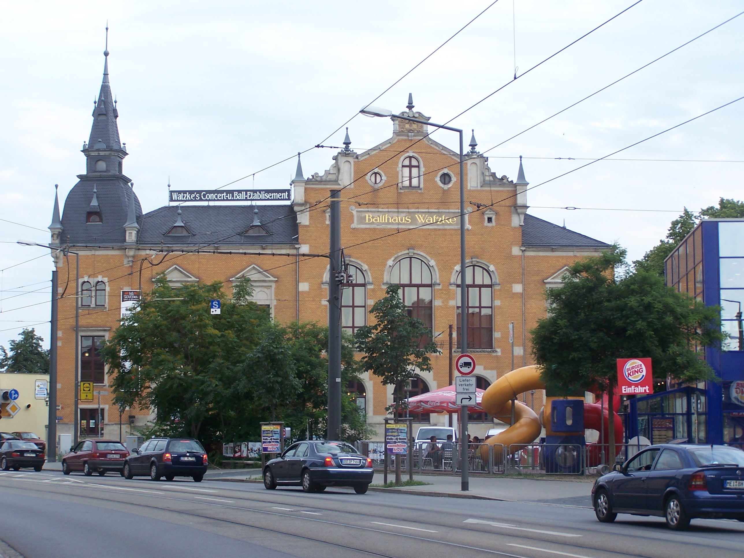 brewery and ballroom dancing facility "Watzke" in Dresden